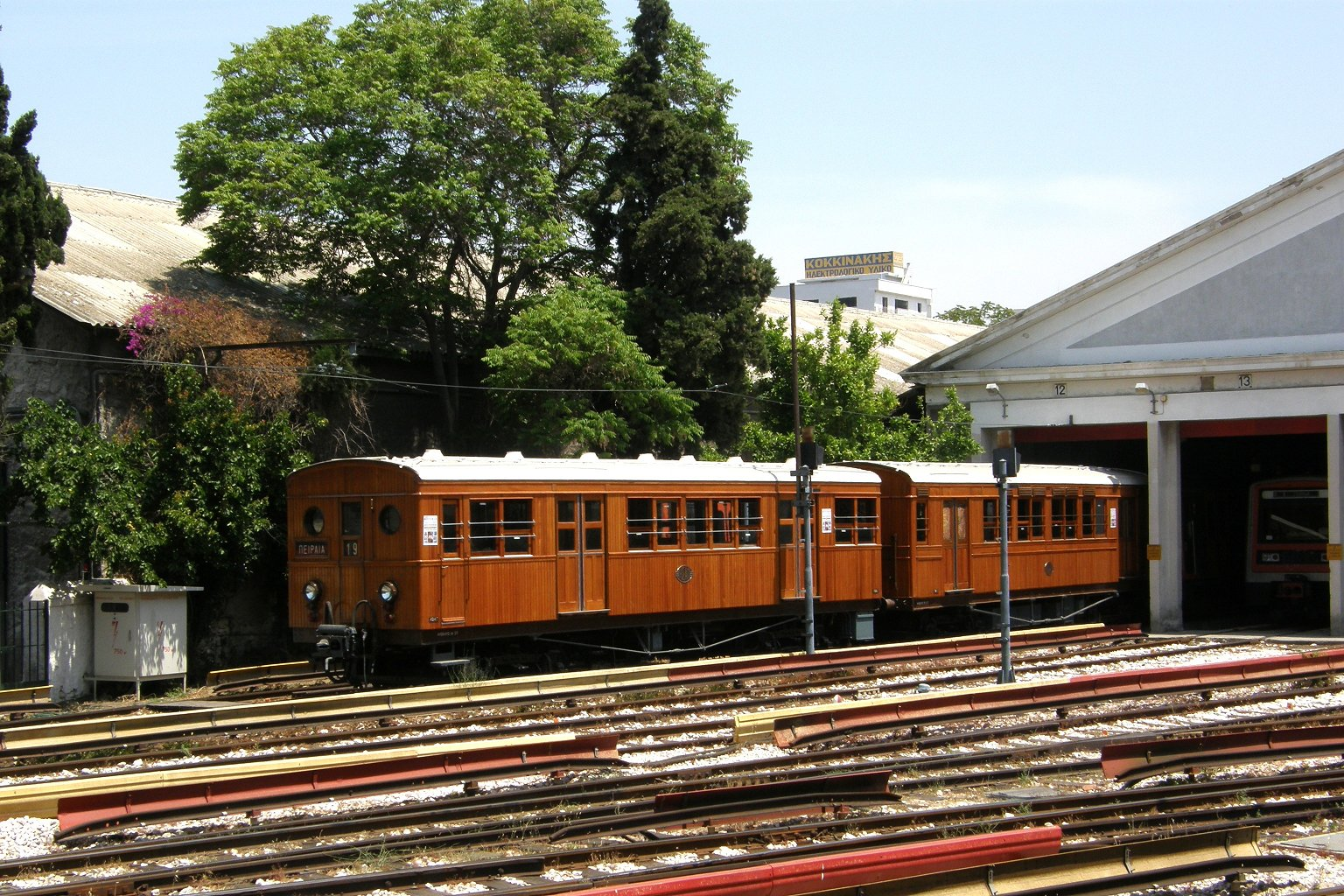 Greece: Preserved old ISAP rolling stock at Piraeus sidings on May 16, 2008.